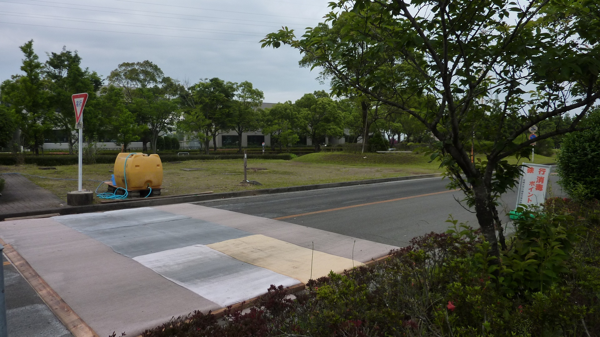 The Disinfection Point for FMD in University of Miyazaki (Kibana Campus), Miyazaki City, Japan.